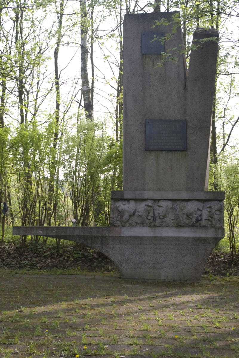 The monunent of Poles murdered during World War II on Księże Góry near Grudziądz